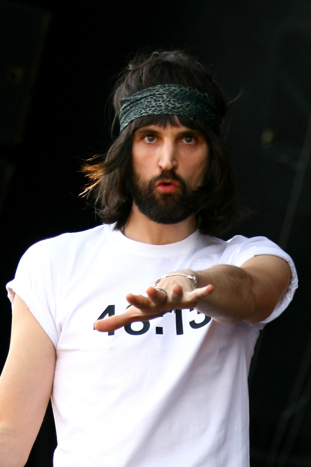 Sergio Pizzorno, guitarist of Kasabian, on the Centerstage of Rock im Park Festival 2014. Festivalsommer This photo was created with the support of donations to Wikimedia Deutschland in the context of the CPB project "Festival Summer".